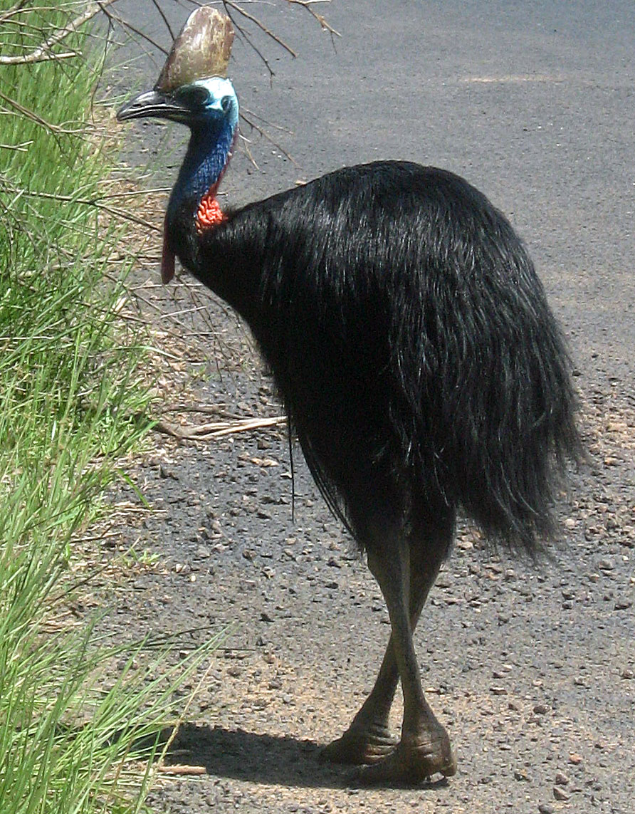 Wild cassowary walking down road in South Mission Beach.